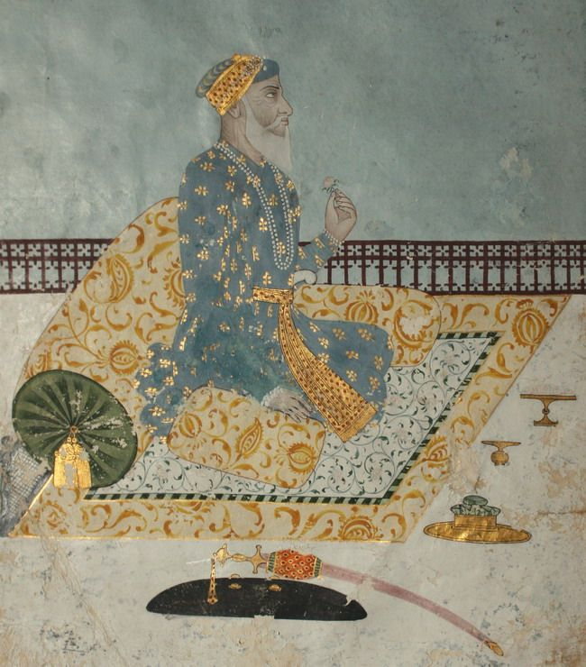 Posthumous portrait of Nawab Saadat Khan of Awadh (r.1722-39). Lucknow, 1760.